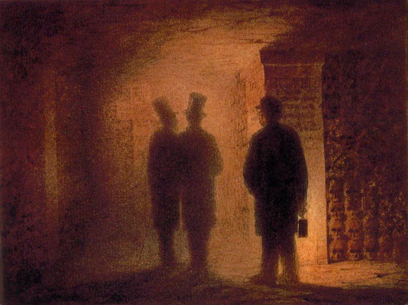 People pictured are Hartmann, Vasily Kenel, and a guide holding the lantern.